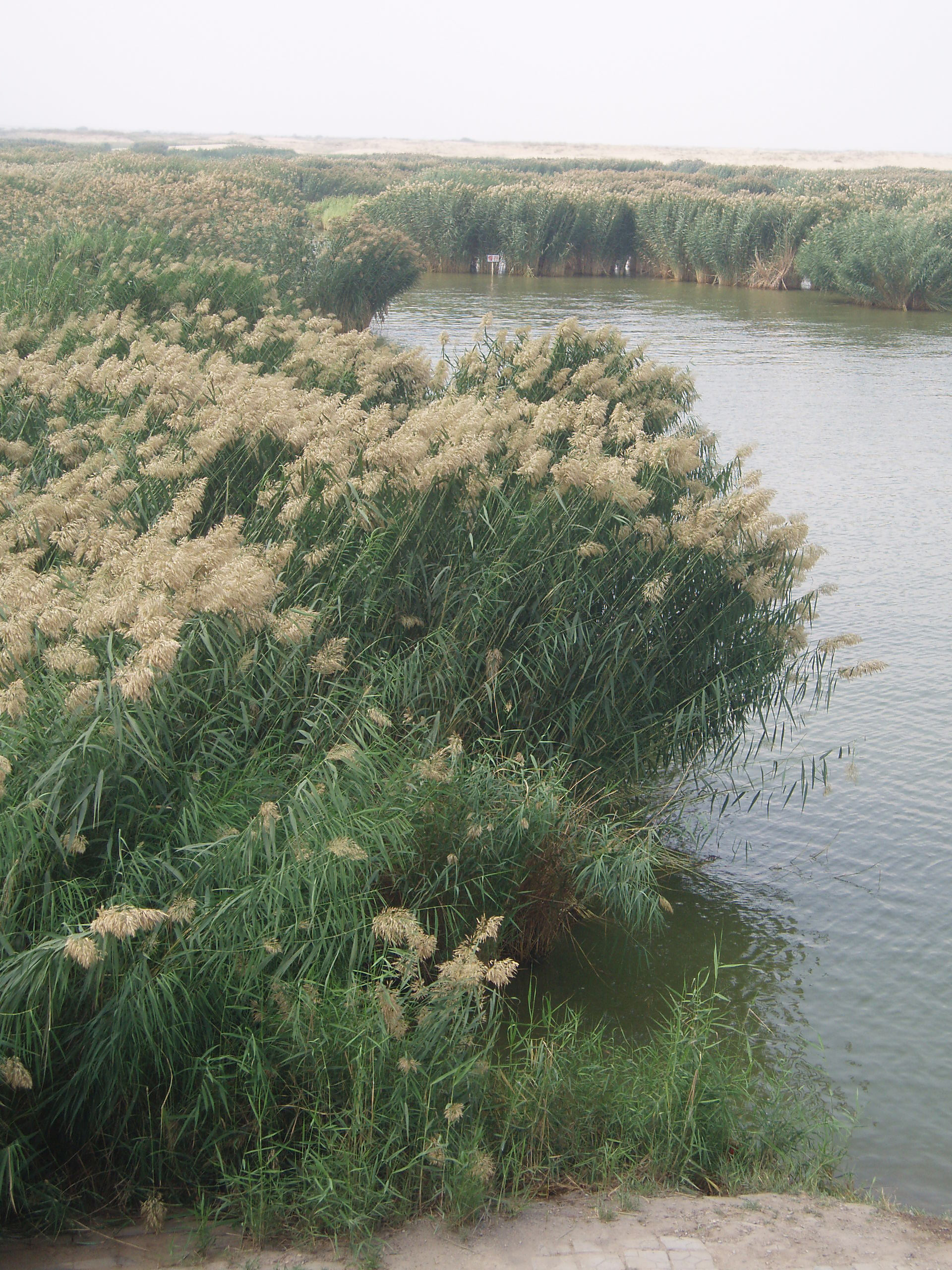 The lake in desert near Zhongwei, Ningxia, China